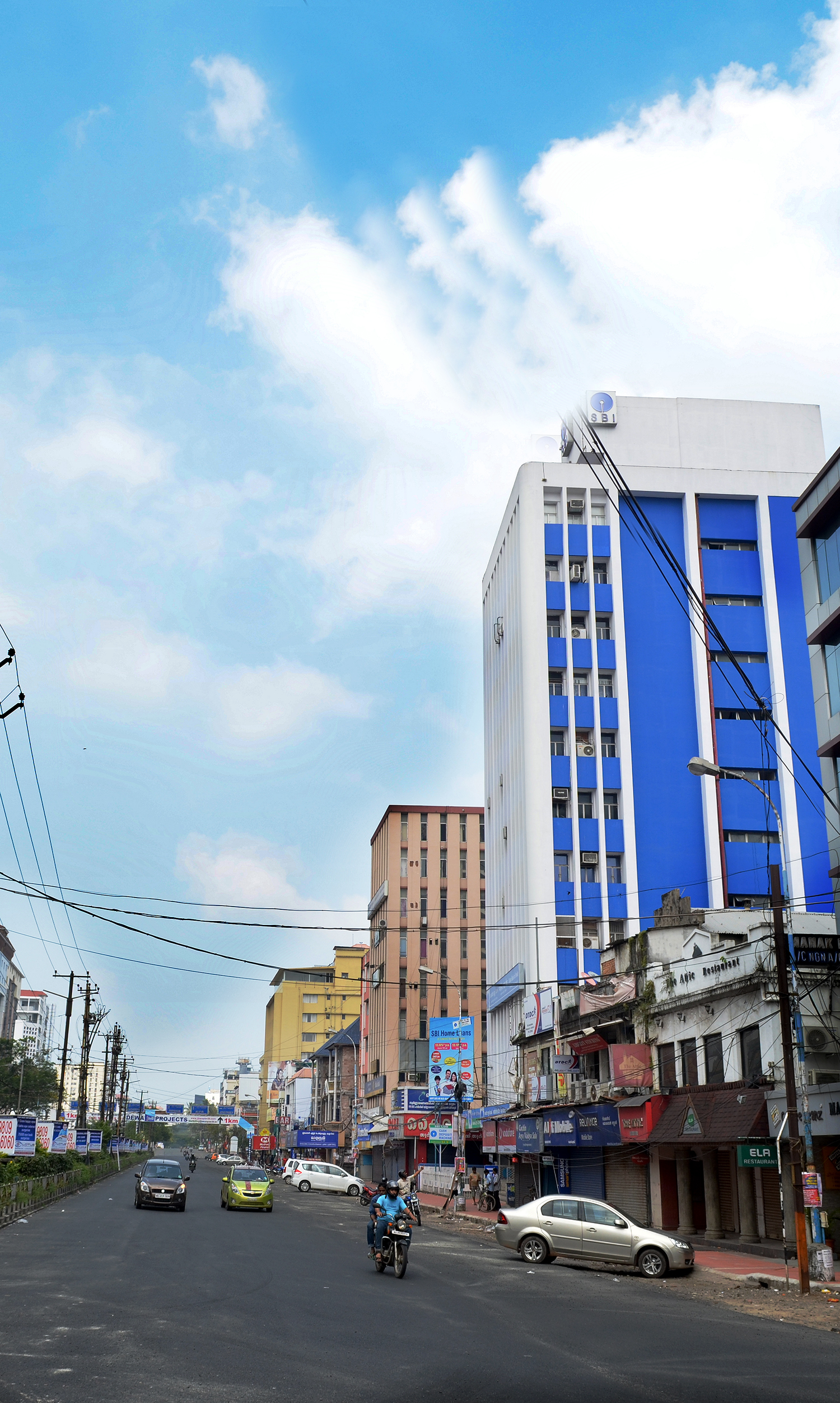 One side view of Shanmugham Road, Kochi